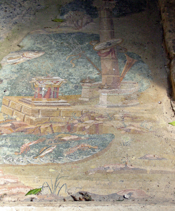 Italy, Latium, Palestrina, roman forum, roman basilica, room with fishes mosaic, part of the mosaic